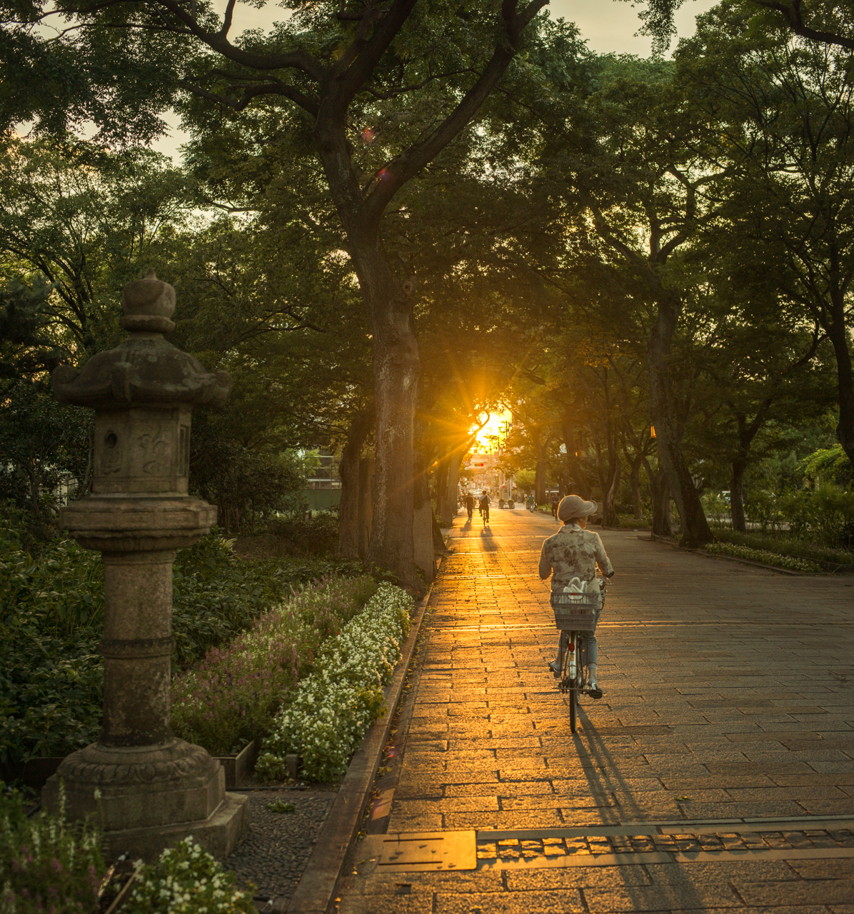 Sunset on the main promenade at Sumiyoshi Park, the oldest public park in Osaka, Japan.